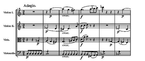 Wolfgang Amadeus Mozart's "Dissonant" string quartet, op. 10 Nr. 6, KV 465